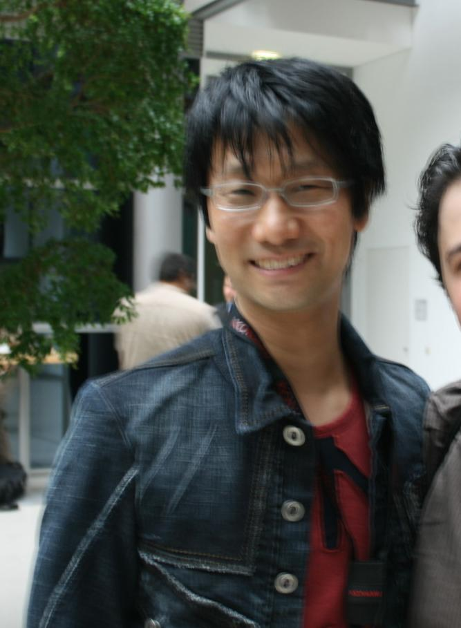 Hideo Kojima at the Convention in Leipzig / Germany